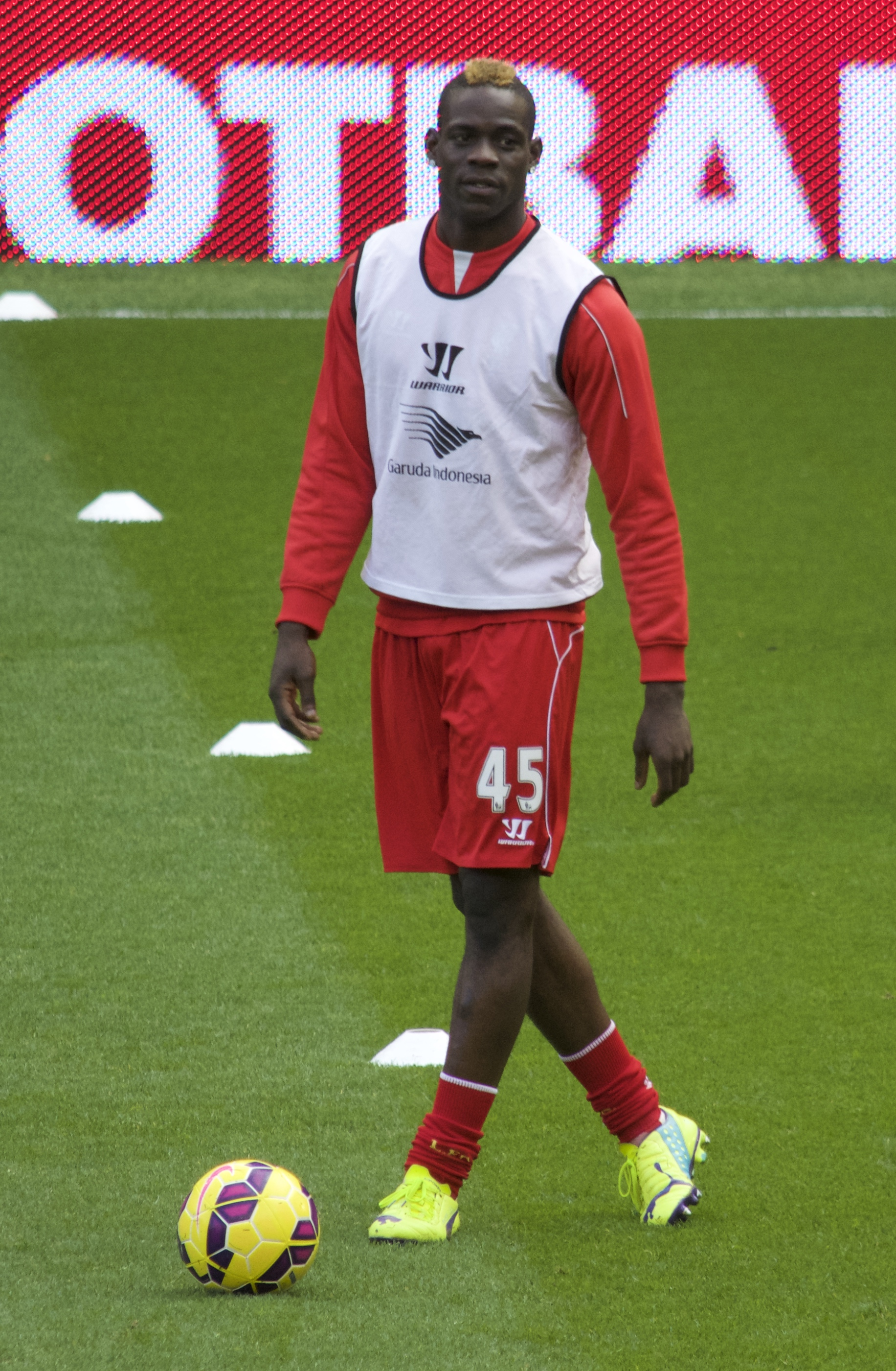 Liverpool v Hull City 25-10-14